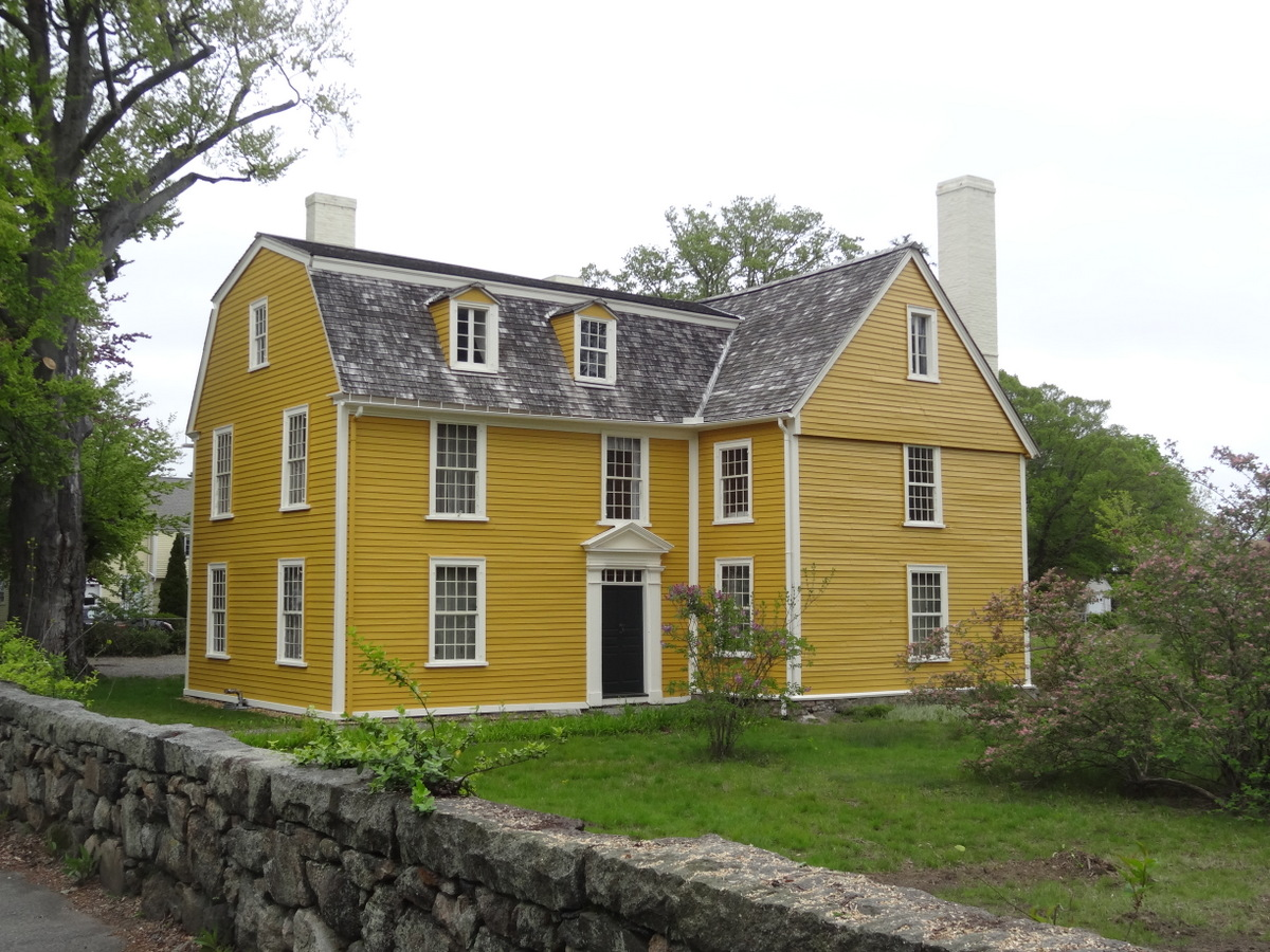 Rev. John Hale Farm 39 Hale Street Beverly, Massachusetts "This house was built in 1694, possibly with structural members from an earlier parsonage, by Beverly’s first minister, Rev. John Hale (1636–1700). Hale is now best remembered for playing a significant part in the infamous Salem witch trials in 1692.[2] He had been at the forefront of the prosecutions but underwent a change of heart when his second wife Sarah Noyes Hale was accused of witchcraft. She was not convicted, and shortly thereafter the trials concluded. After his wife's death in 1697, Rev. Hale wrote a book entitled A Modest Inquiry into the Nature of Witchcraft, condemning his colleagues who played leading roles in the trials." -- Wikipedia